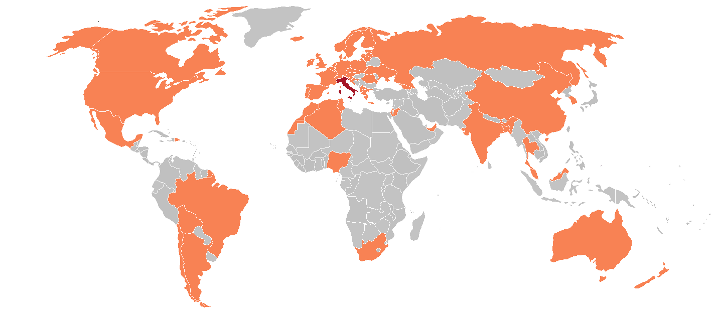 Countries and territories with COVID-19 cases linked directly to Italian cluster Italy Cases linked to Italian cluster Albania [1] Algeria Andorra Argentina Austria Australia [2] Bangladesh [3] Belgium [4] Bolivia [5] Bosnia and Herzegovina [6] Brazil Canada [7] Croatia Chile Czech Republic Denmark Dominican Republic Estonia Finald France Georgia Germany Greece Iceland India Ireland Israel Jordan Latvia Lithuania Luxemburg Mainland China Malaysia Mexico Morocco Netherlands New Zealand [8] Nigeria North Macedonia Norway Poland [9] Portugal Romania Russia Slovakia [10] Slovenia [11] South Africa [12] South Korea Spain Sweden Switzerland Thailand [13] Tunisia Ukraine United Arab Emirates United Kingdom United States